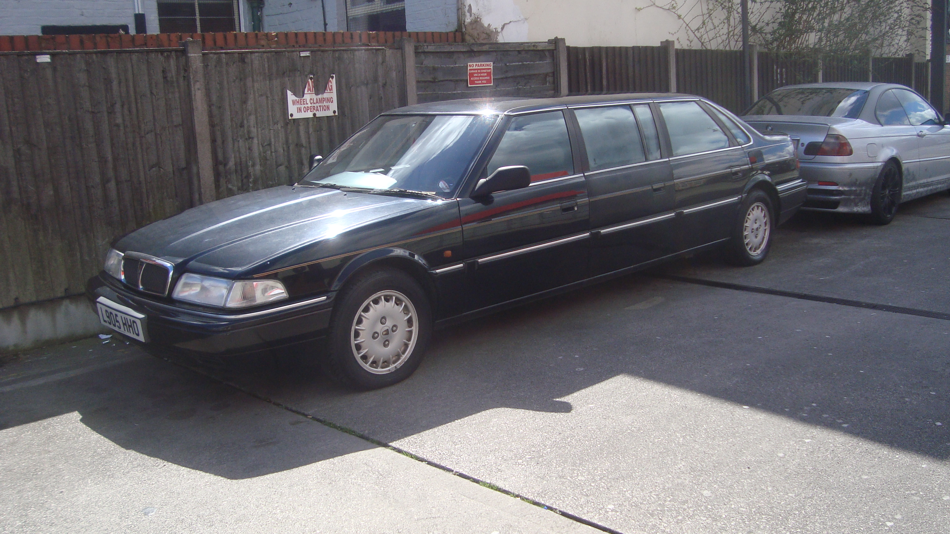 Now on Ebay